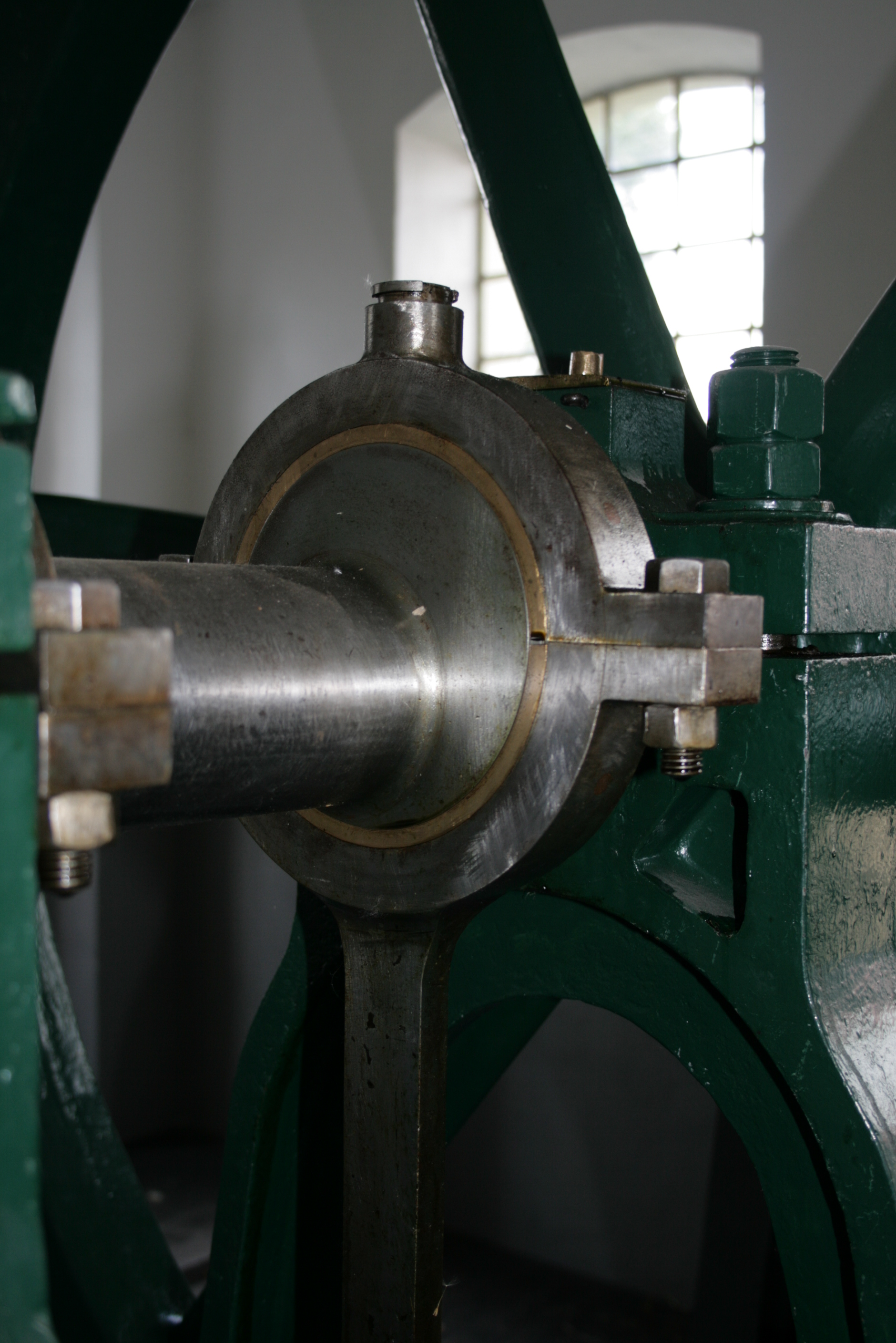 Eccentric in detail. Part of transmission between steam engine and water pump.